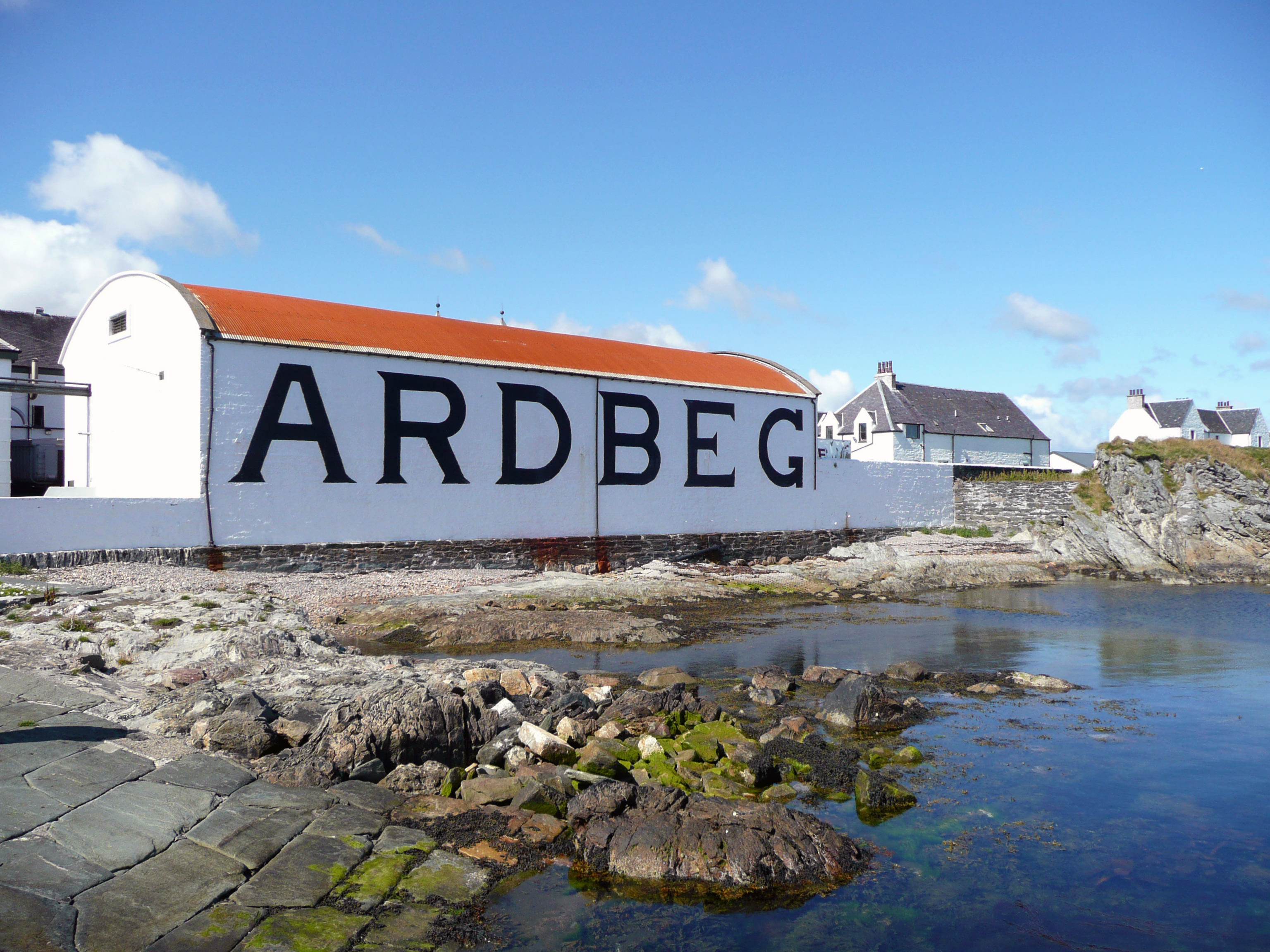 Ardbeg Distillery